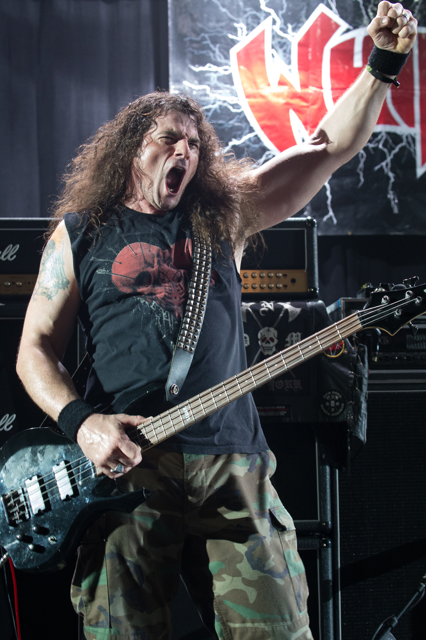 Whiplash performing at 70.000 tons of metal, january 2015